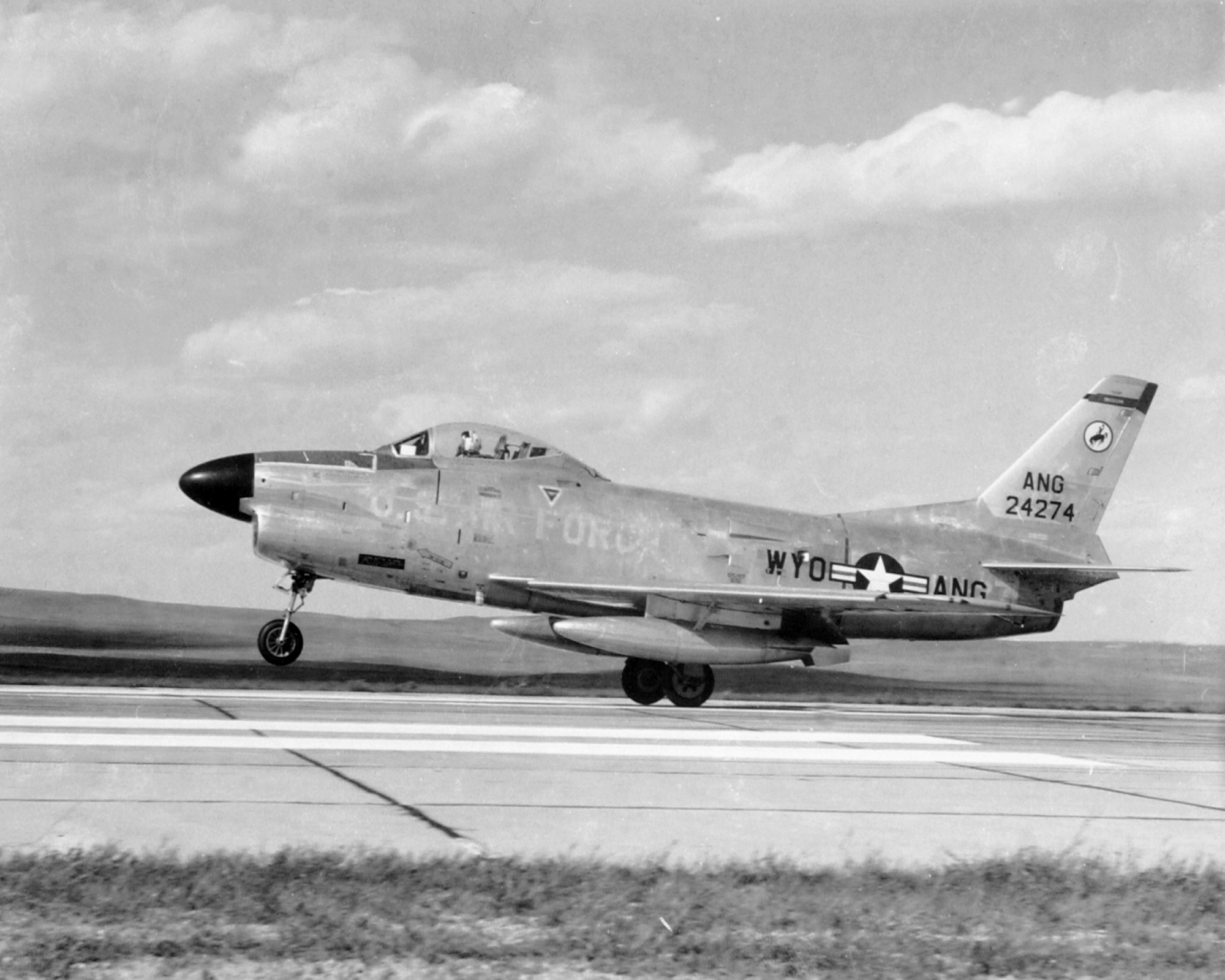 A U.S. Air Force North American F-86L Sabre fighter from the 187th Fighter Interceptor Squadron, 153rd Fighter Group (Air Defense), Wyoming Air National Guard. The 153rd FIG flew the F-86L from 1958 to 1960.